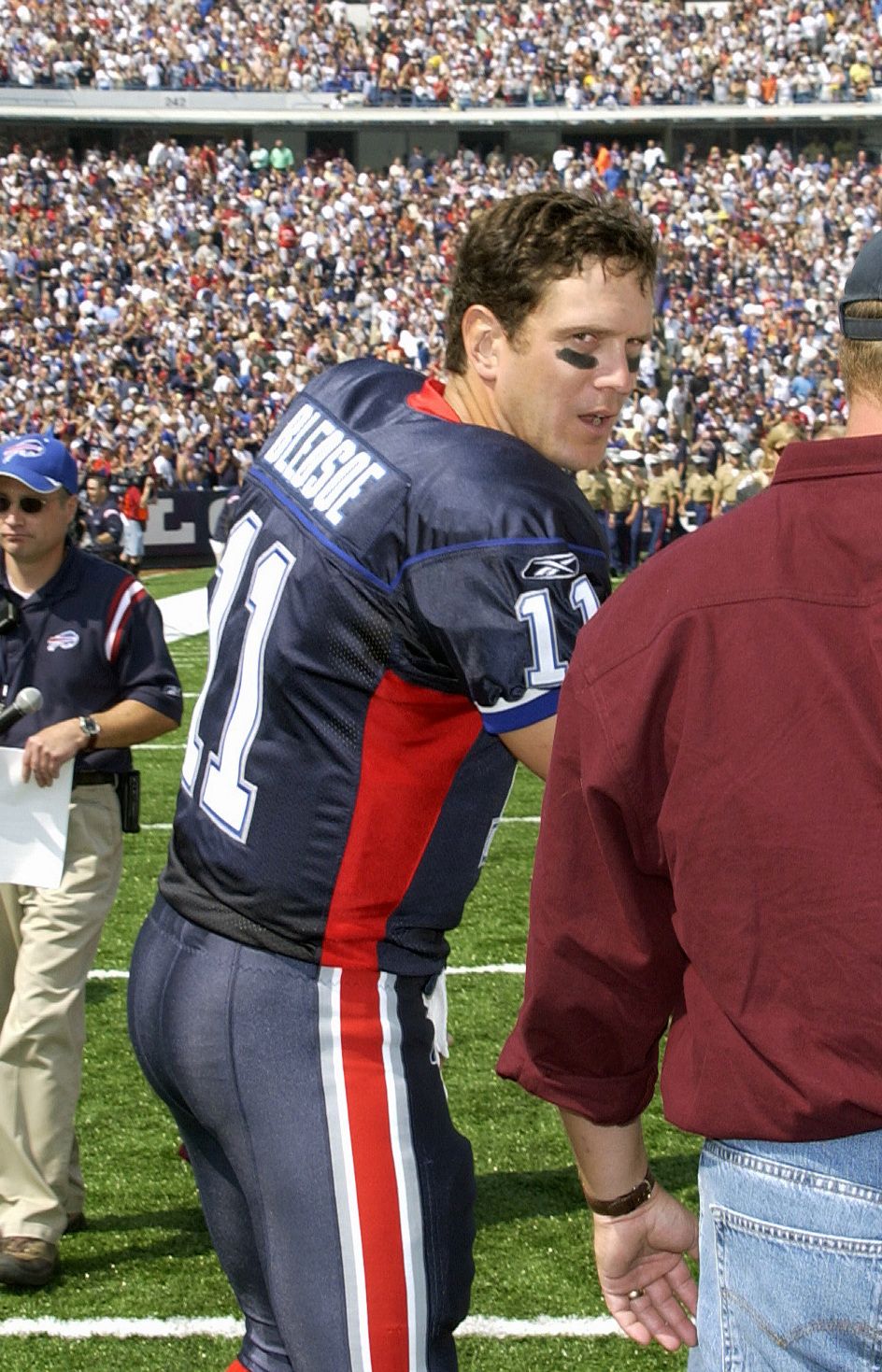 During the pre-game honors, Quarterback Drew Bledsoe of the Buffalo Bills football team, meets with family members of deceased Iraqi war personnel at Niagara Falls, New York, on September 7th, 2003.